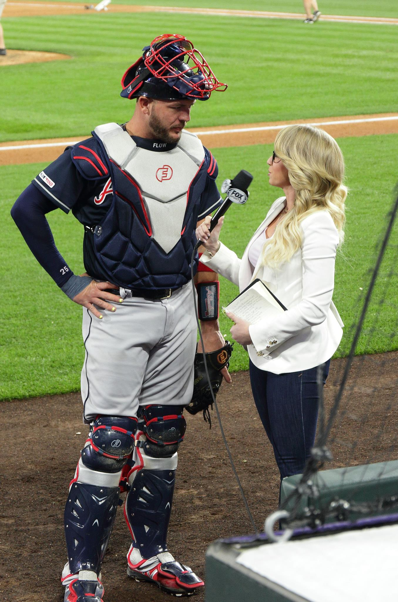 This photo was taken at Coors Field shortly after the completion of a game against the Rockies.